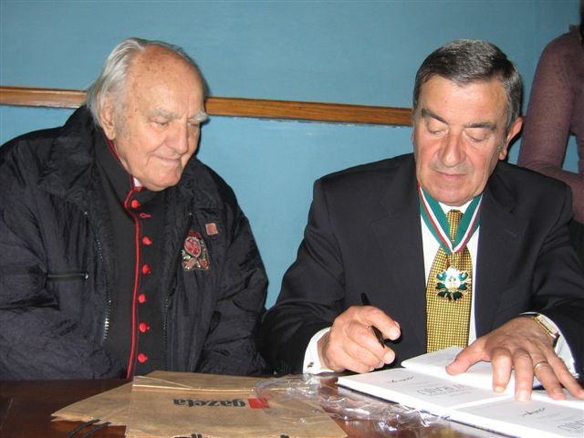 Zdzisław Peszkowski (1918-2007), Polish writer, catholic priest, and Arturo Mari (b. 1940), Italian photographer